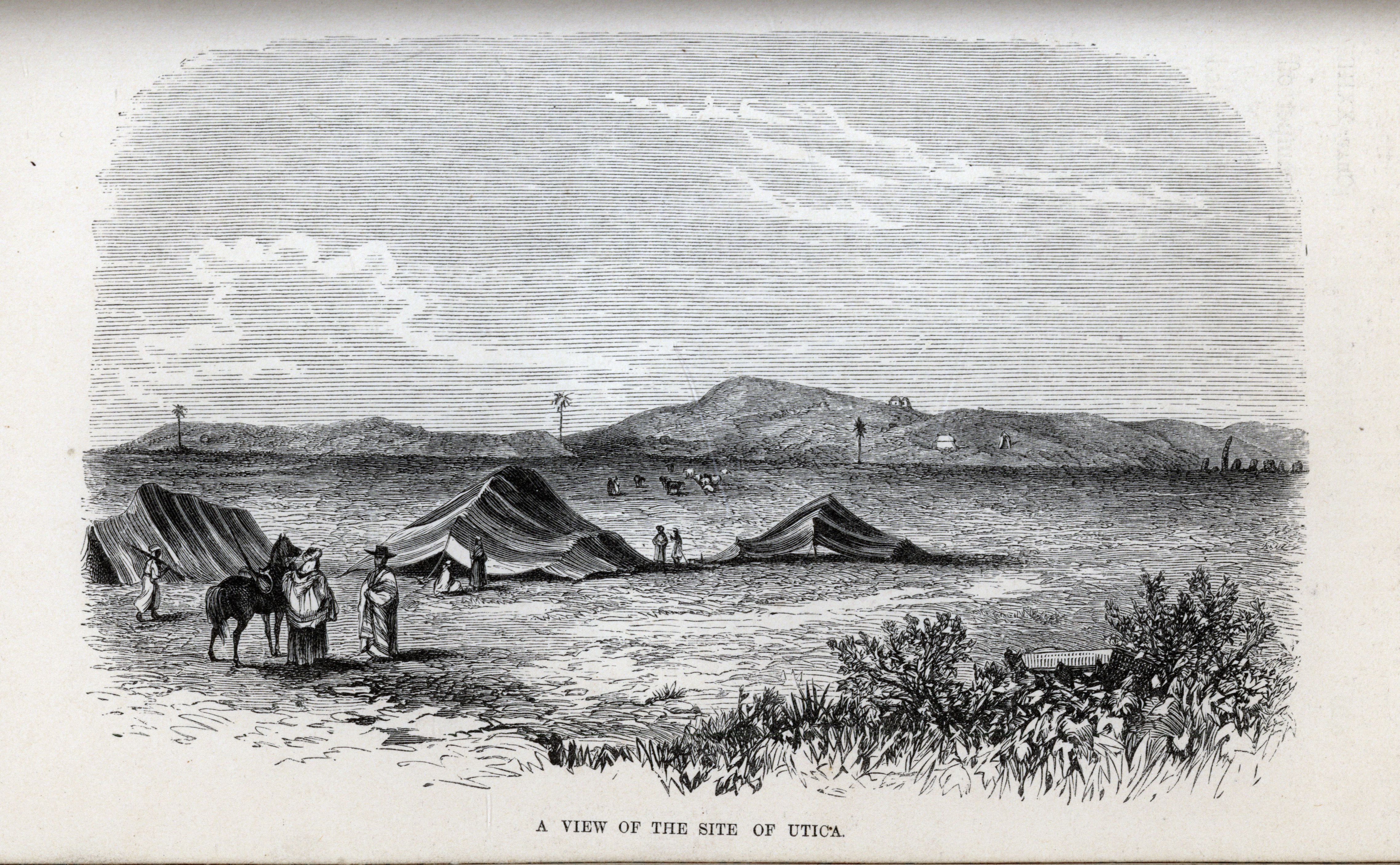 View of Utica site during excavations around 1860